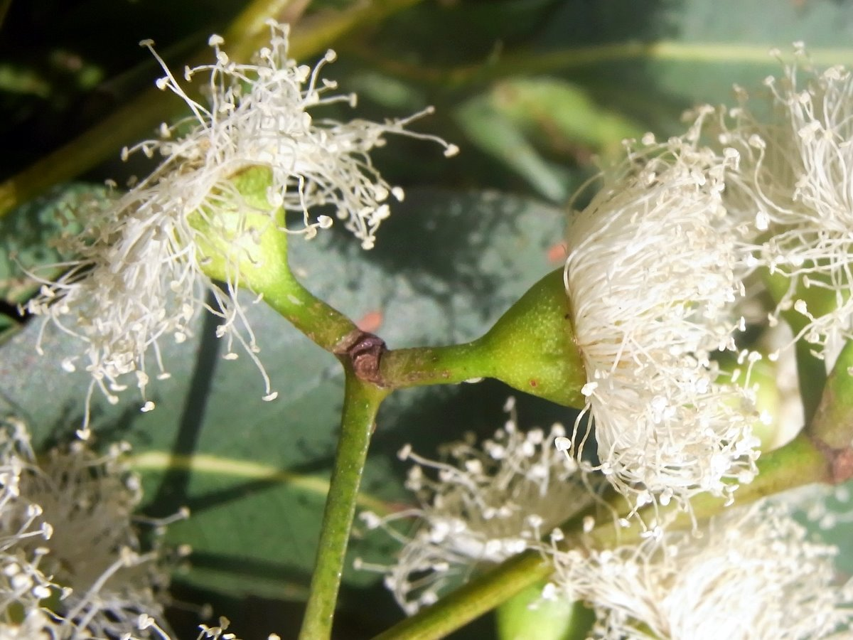 Eucalyptus acmenoides flowers, Eastwood, NSW, Australia